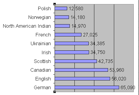 Ethno-cultural Groups Metropolitan Saskatoon From the Saskatoon wikipedia article Statistics Canada, 2001 census